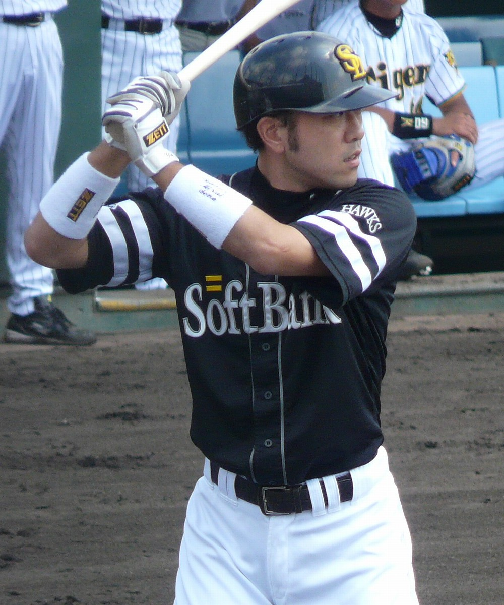 Motohiro Yoshikawa